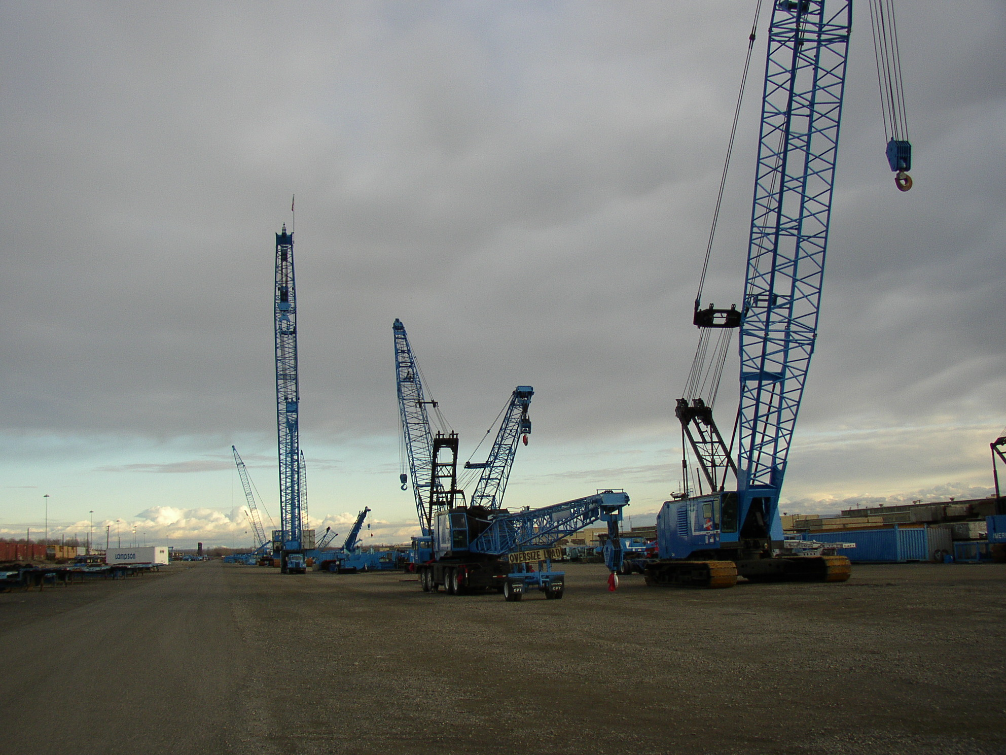 Lampson Cranes in Pasco, Washington. (January 2006) Photographed by Umptanum.